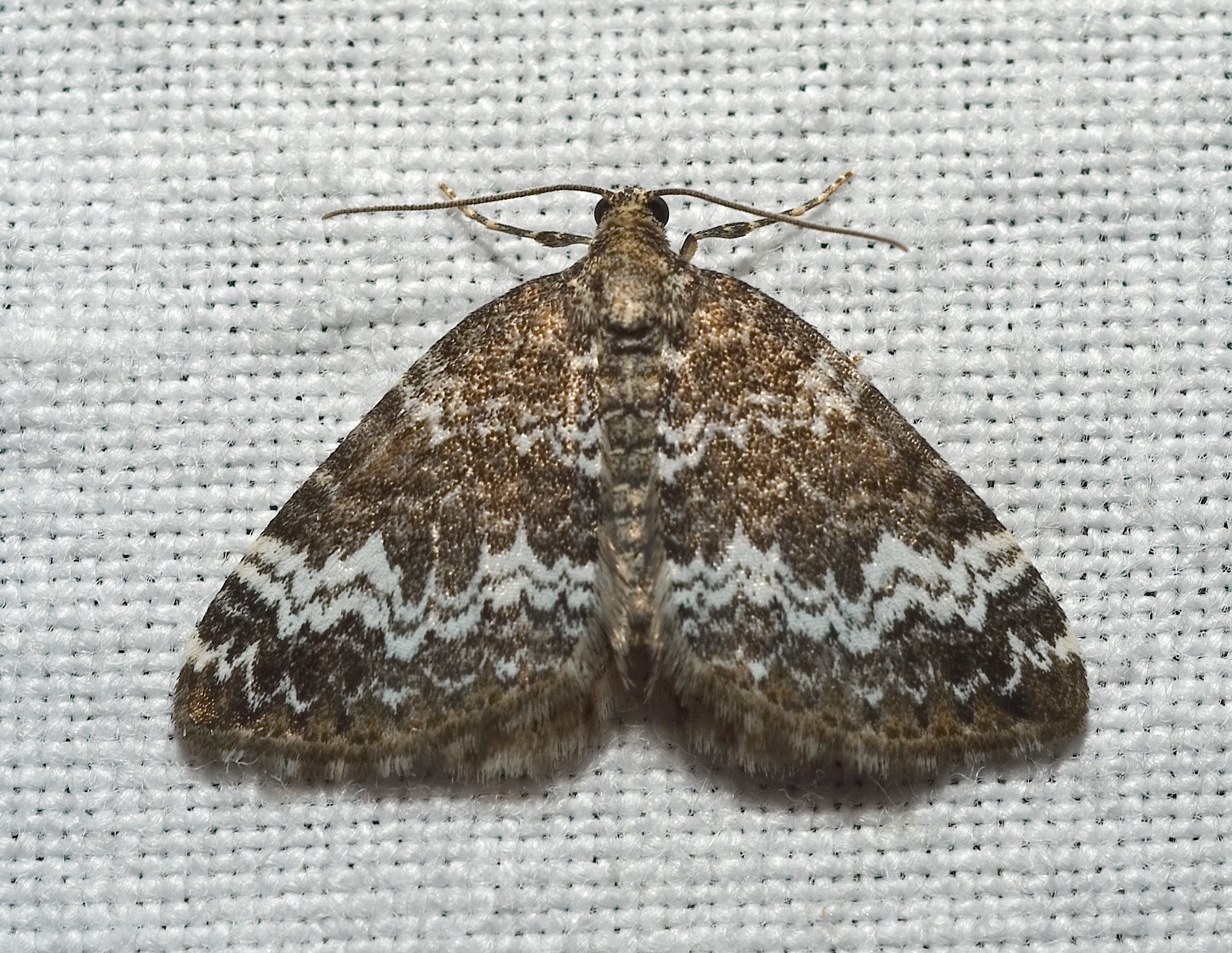 Please report references to kulacgmx.at.